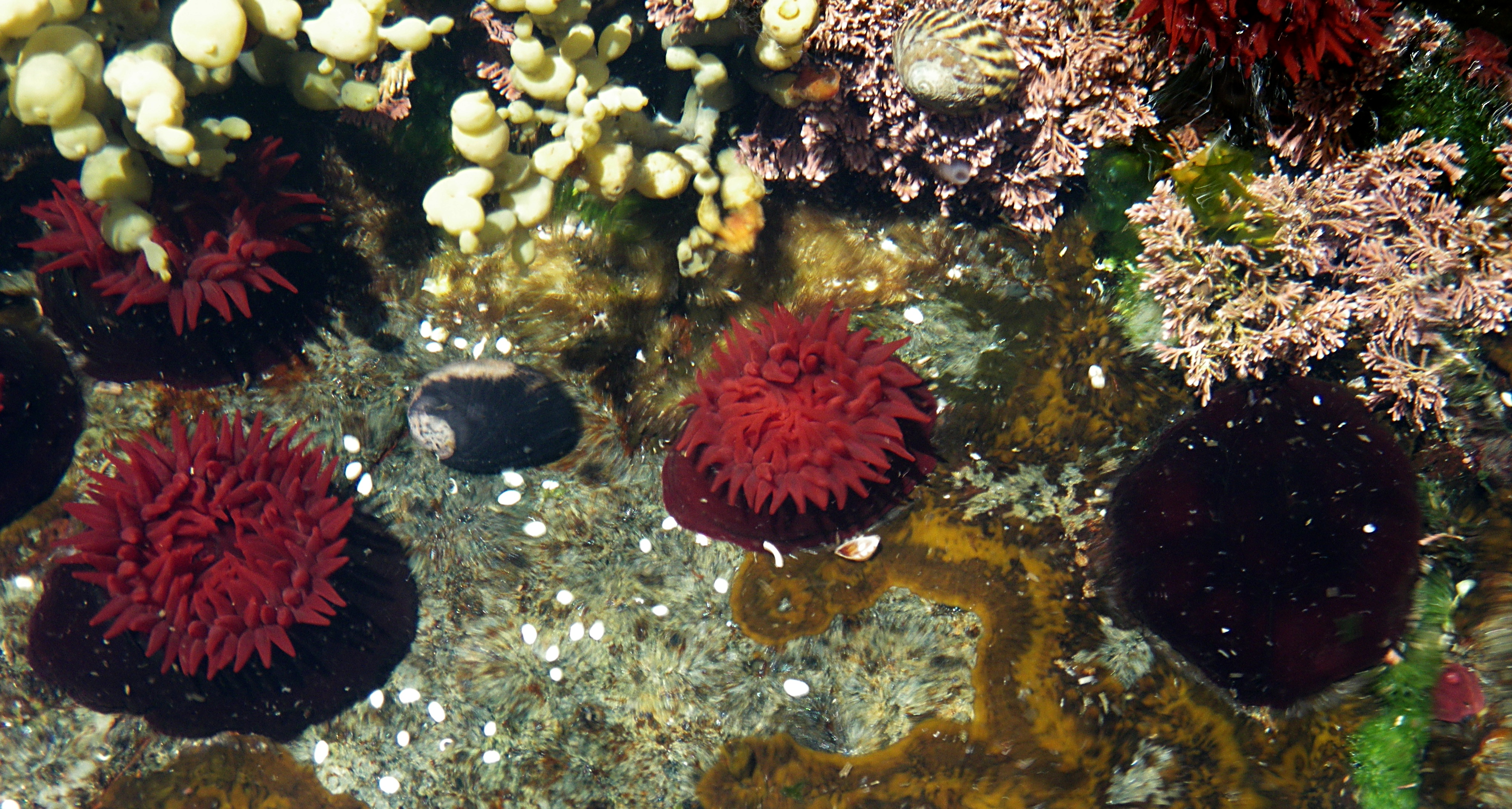 Waratah anenomes Actinea tenebrosa in a rockpool on the south coast of New South Wales, Australia. The anenome on the right is closed.